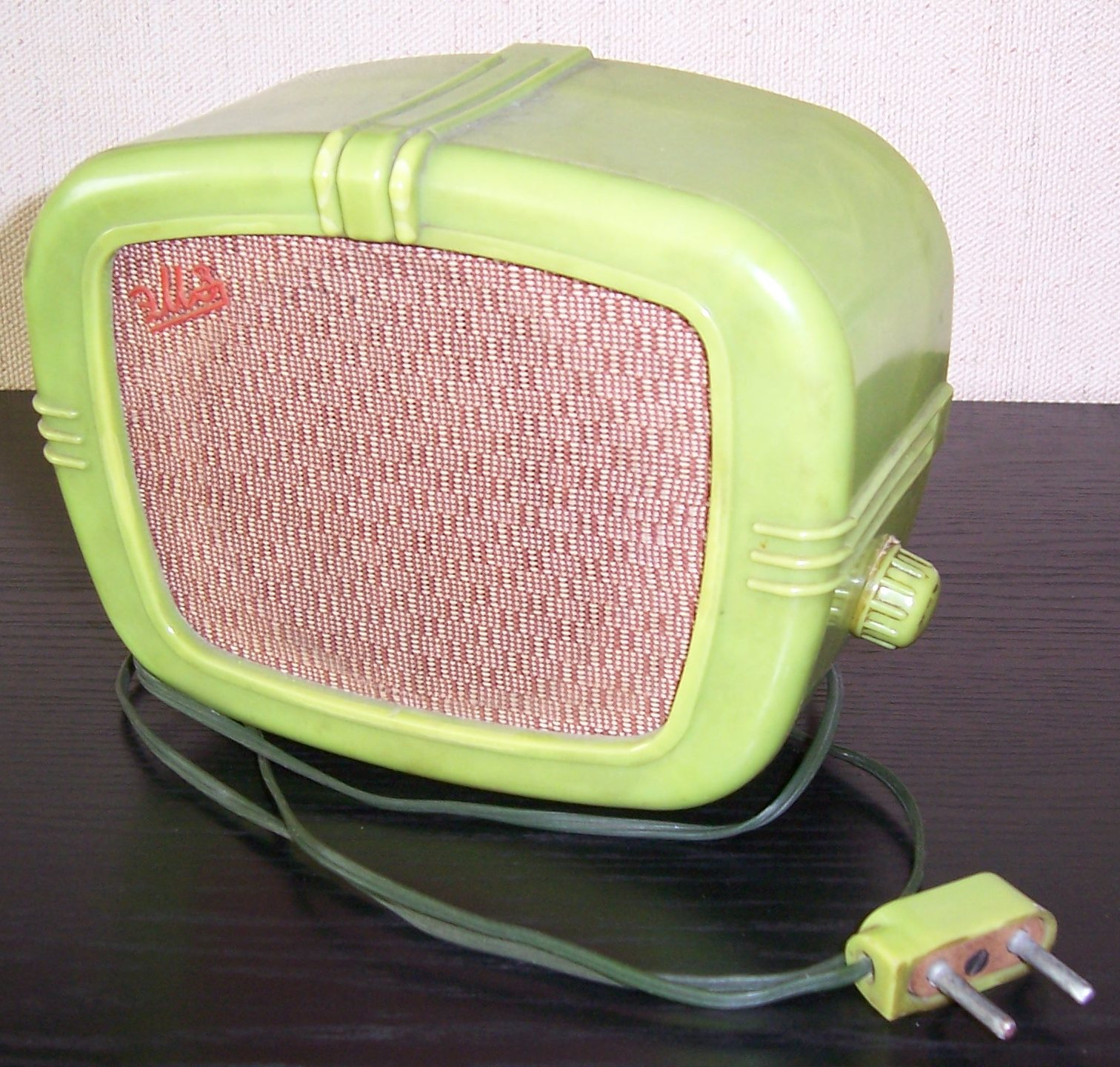 Cable radio receiver (loudspeaker) EMZ (USSR, 1952)